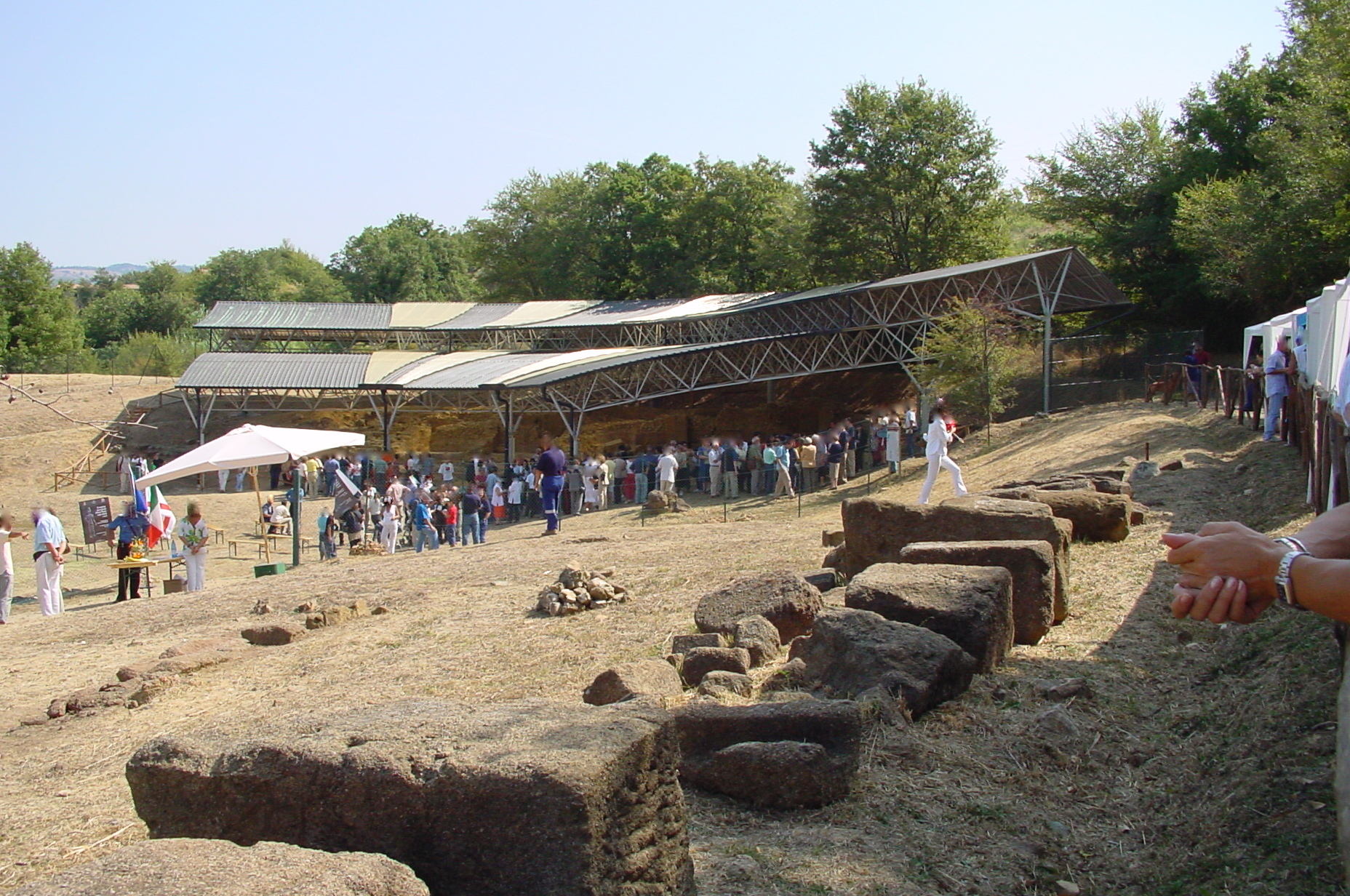 Sasso Pisano